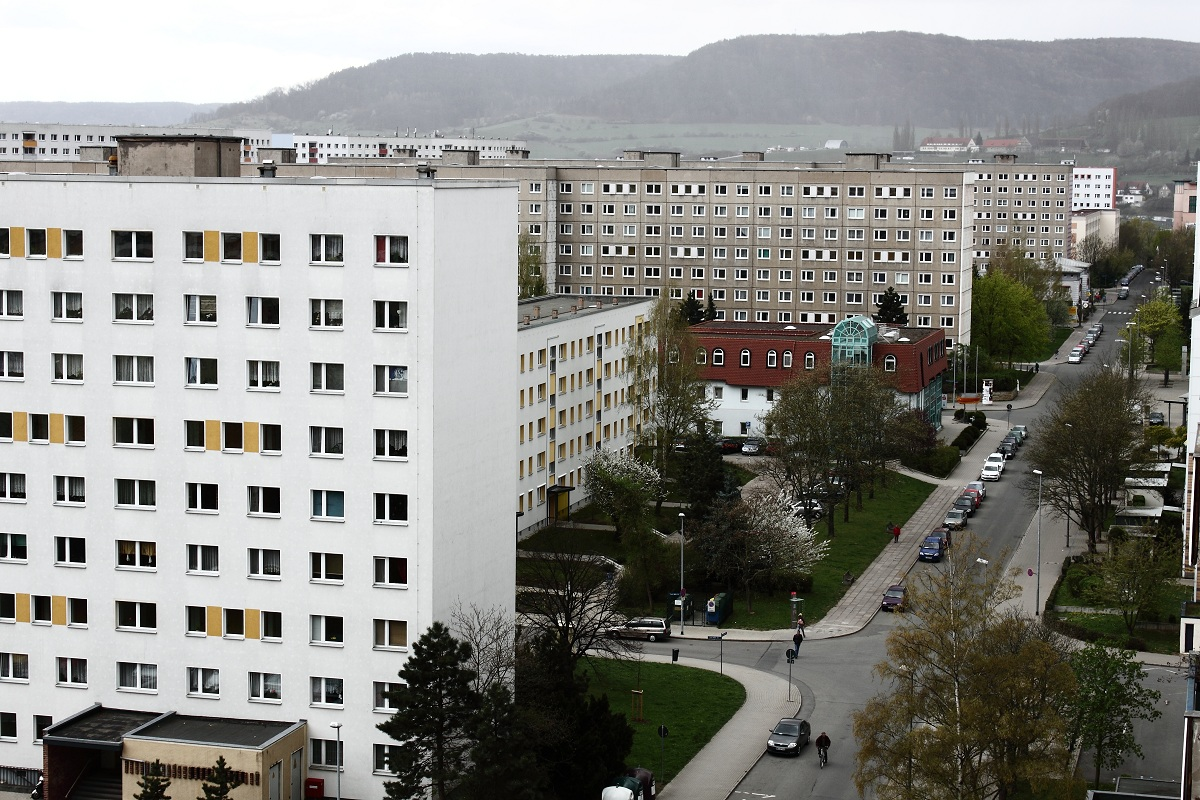 Lobedaer Plattenbau 2011